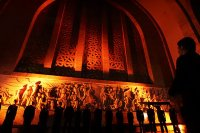 Akustika in the Voortrekkermonument, Pretoria, South Africa.